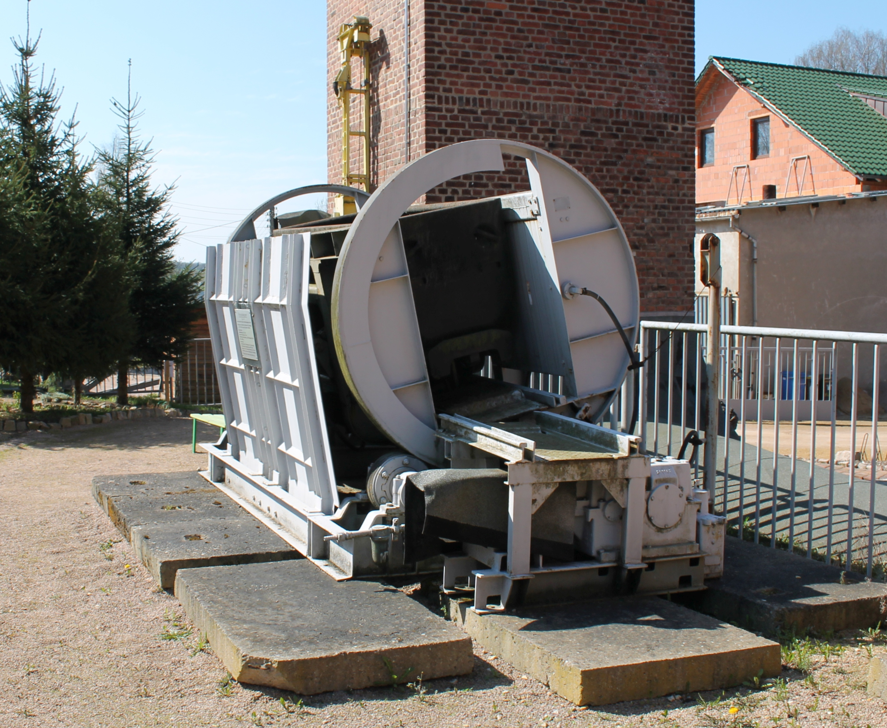 Rotary tippler. Mining museum Reinsdorf near Zwickau, Saxony, Germany.